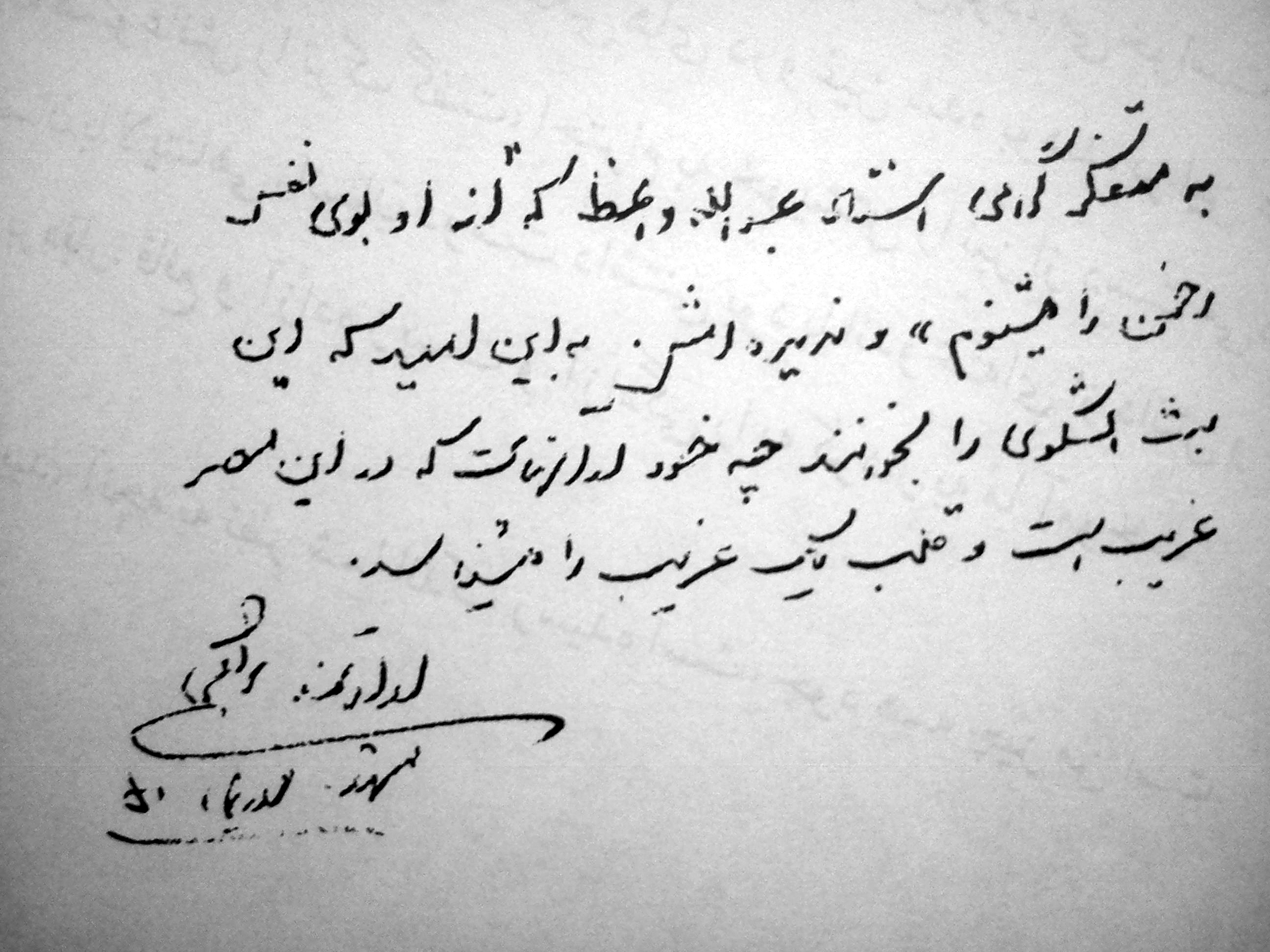 Hand Write of Dr, Ali Shariati to Abdollah Vaaes